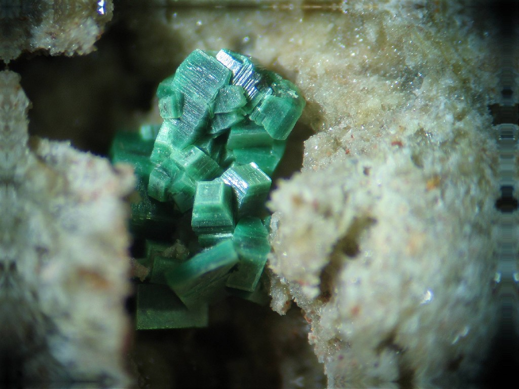 Metatorbernite (Picture width: 1mm x 1mm) Locality: Les Montmins Mine (Ste Barbe vein), Échassières, Ébreuil, Allier, Auvergne, France